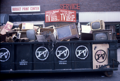 Photo by John Fekner © 2007 John Fekner Estate John Fekner